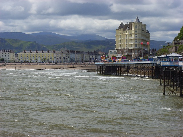 The Grand Hotel, Llandudno View along the pier towards the town centre.